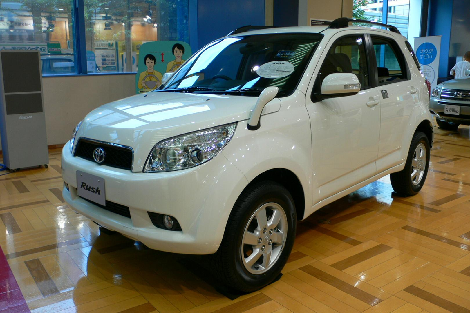 Toyota_Rush taken in Showroom of Toyota-AMLUX